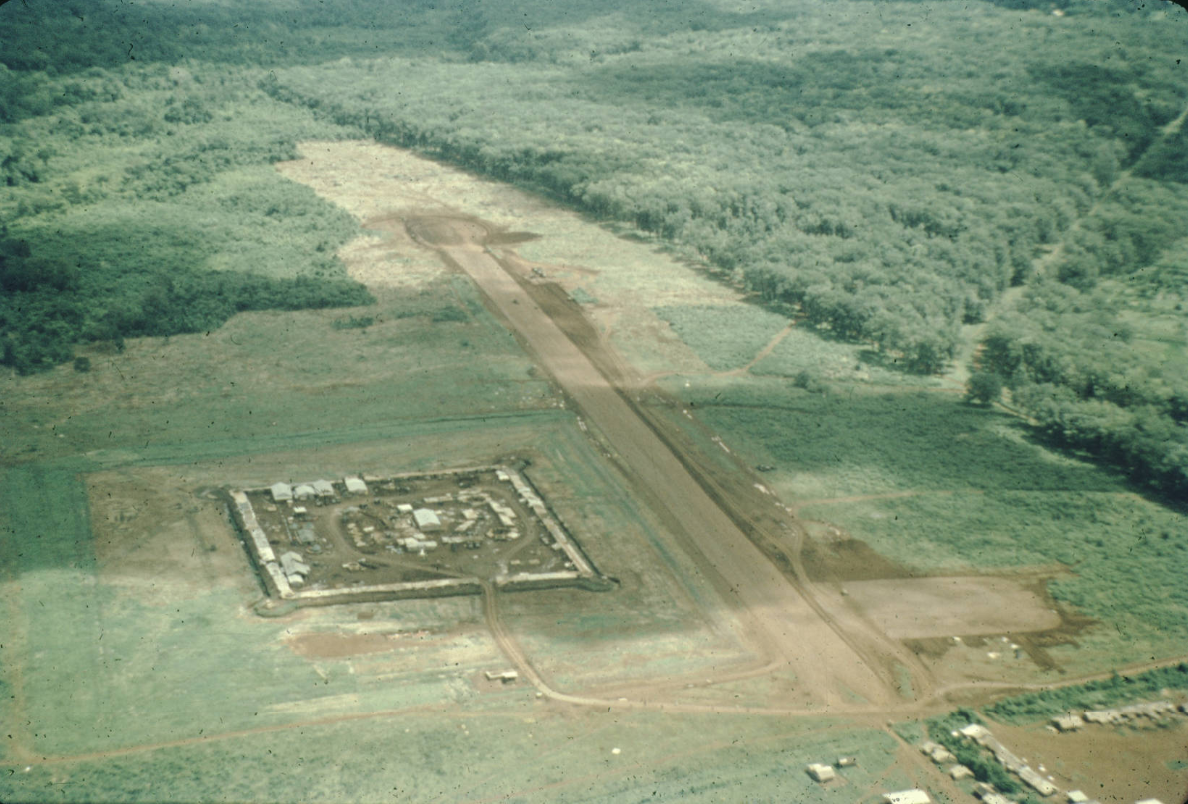 On 17 August 1967 elements of C Company, 168th Engineer Battalion and the 557th Engineer Company were airlifted to the Special Forces camp at Bu Dop located north of Saigon. The mission of the task force is to extend and improve the runway for use by C-123 aircraft. The project was 20% complete on this date.